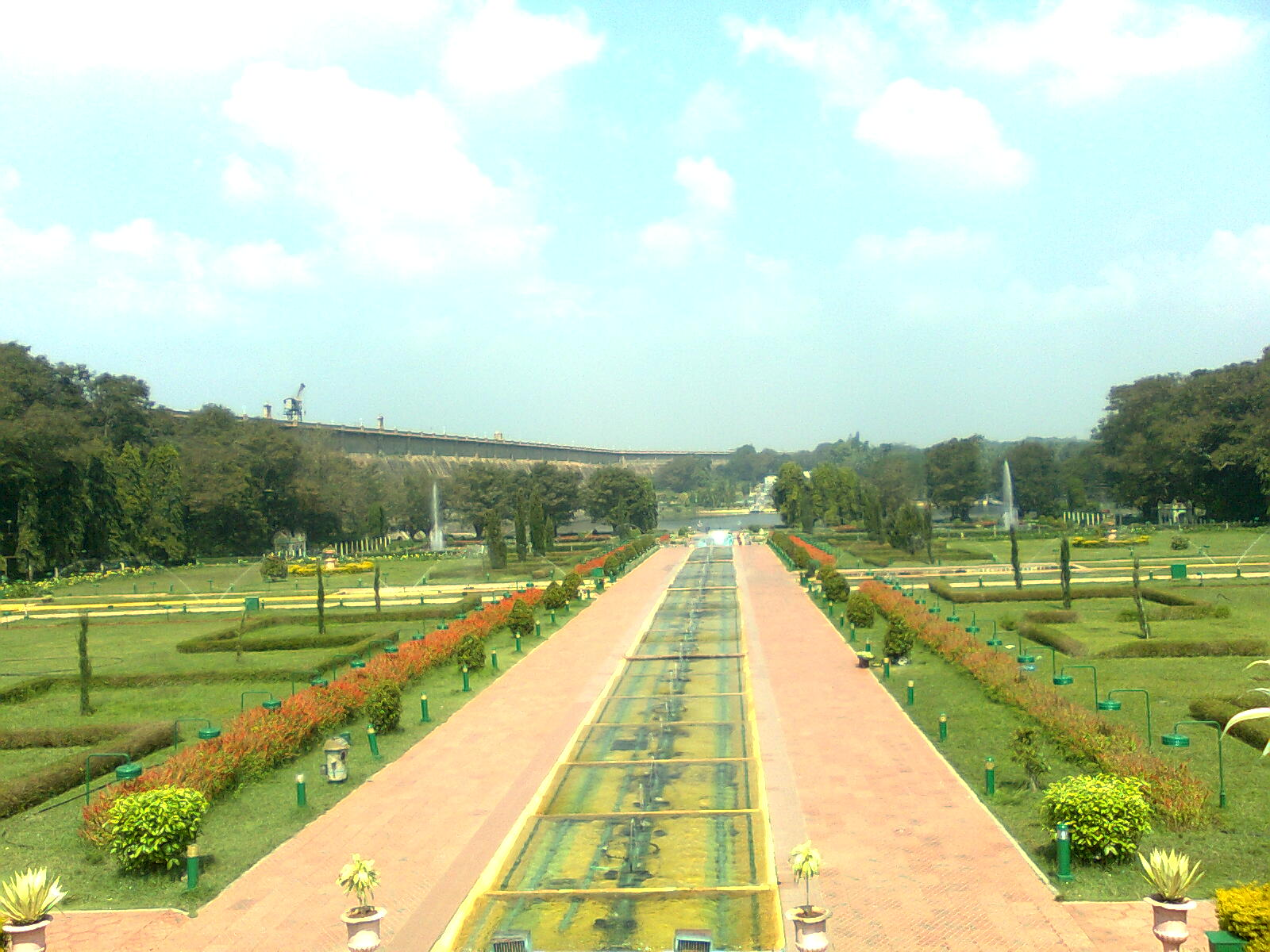 Vrindavan Gardens, Krishana Raja Sagara, Mysore